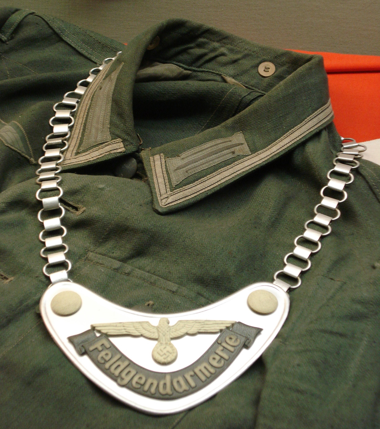 Summer service dress jacket and gorget of a sergeant in the German Feldgendarmerie (military police),captured at Avranches (France), 7 August 1944.